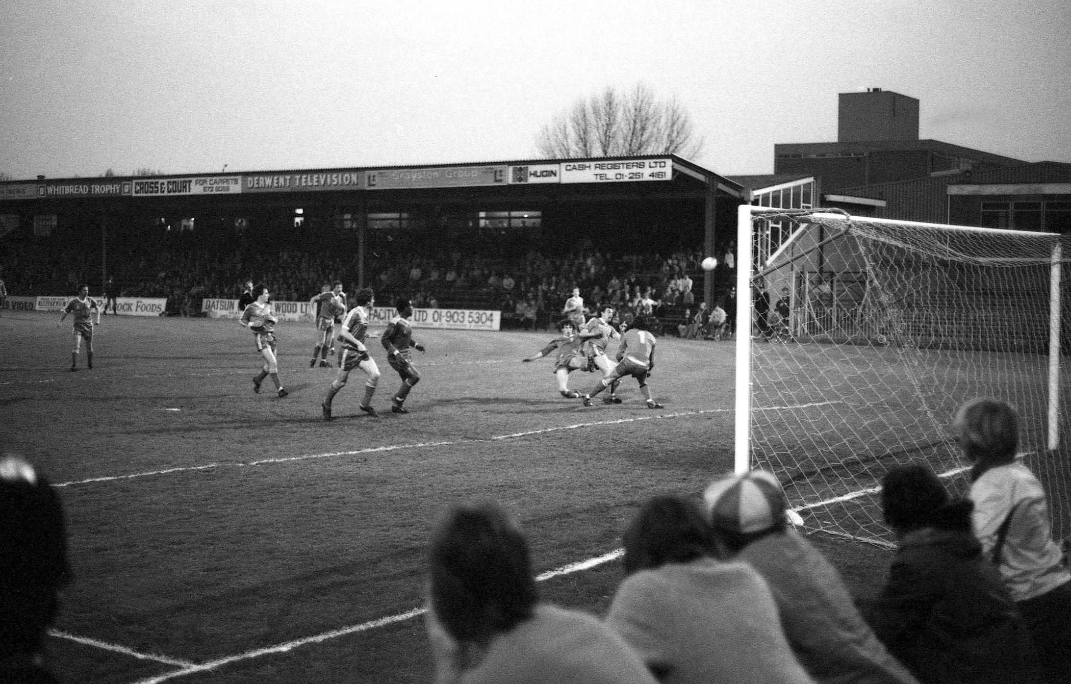 Plough Lane - The former home of Wimbledon FC, near to Merton, Great Britain.